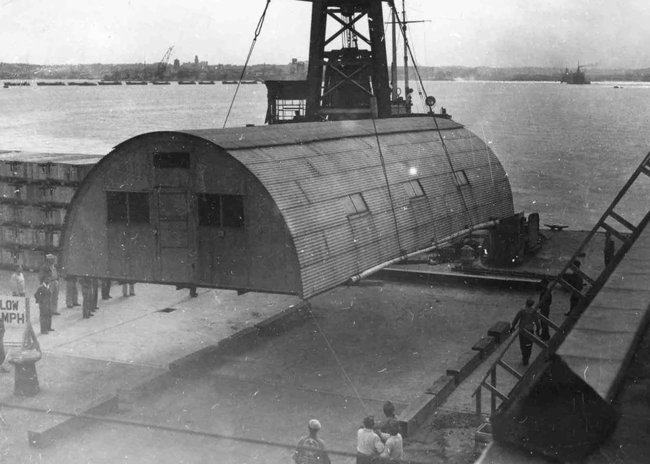 Quonset hut, originally barracks for the 736th Engineers, is set in place to be reused as office space by the 598th Engineer Base Depot, 1947-48, post-WWII Japan.